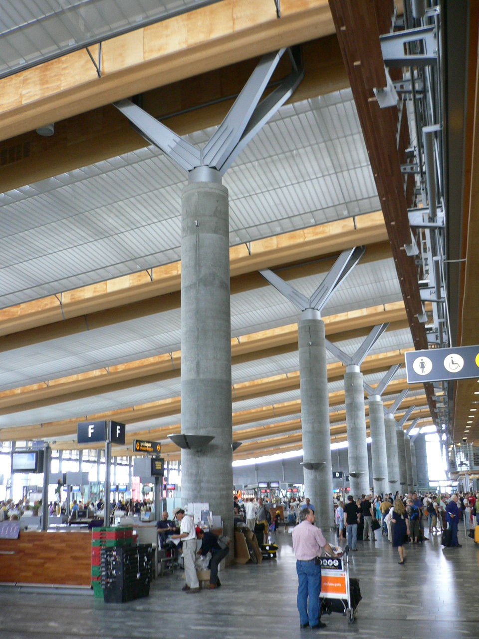 From Oslo Airport Gardermoen